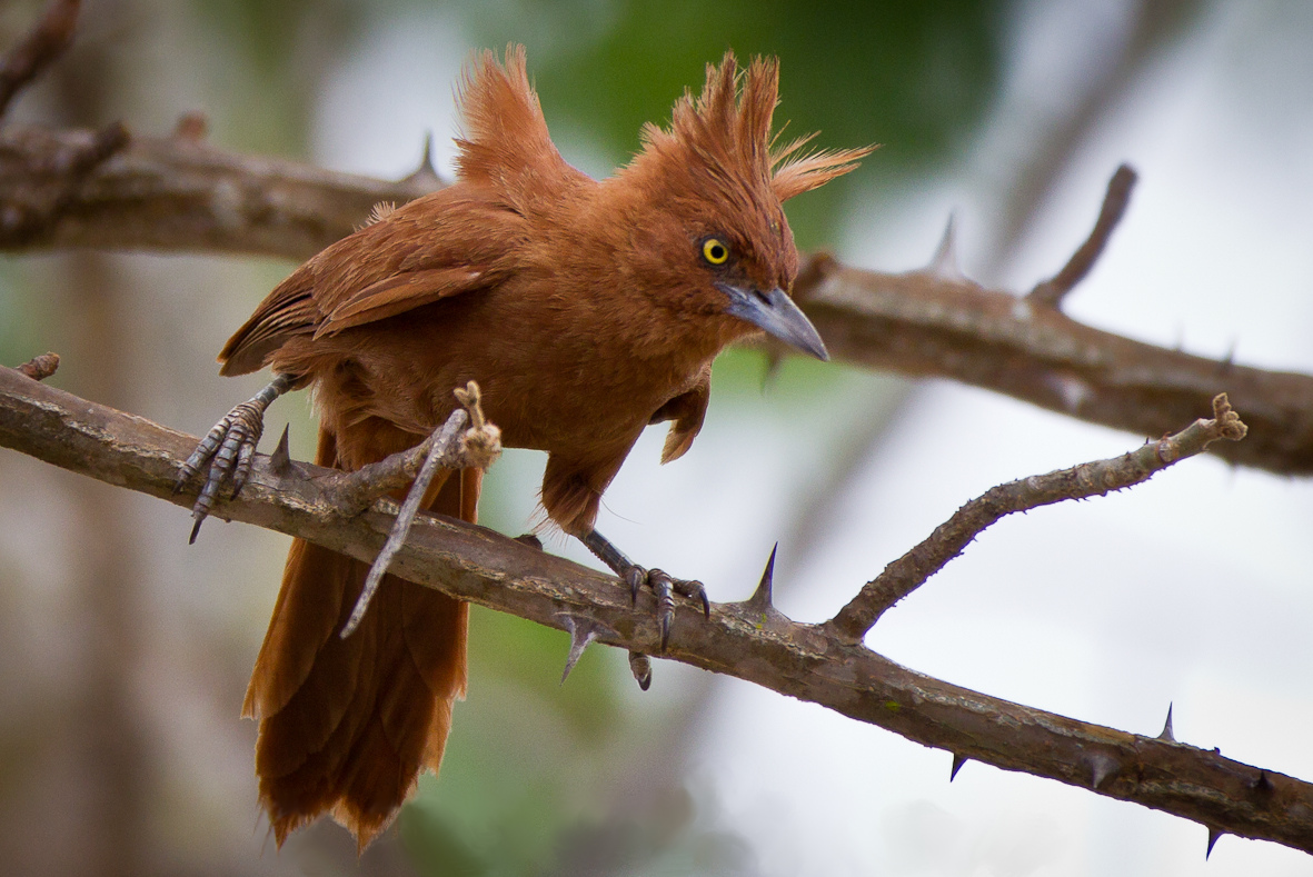 A Caatinga Cacholote in Paraíba, Brazil.